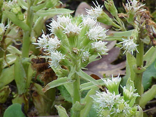 Species: Petasites albus Family: Asteraceae Image No. 1